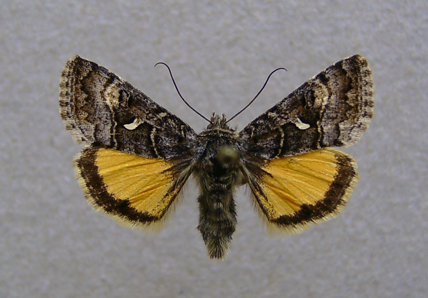 Syngrapha devergens, Col Agnel, Italy